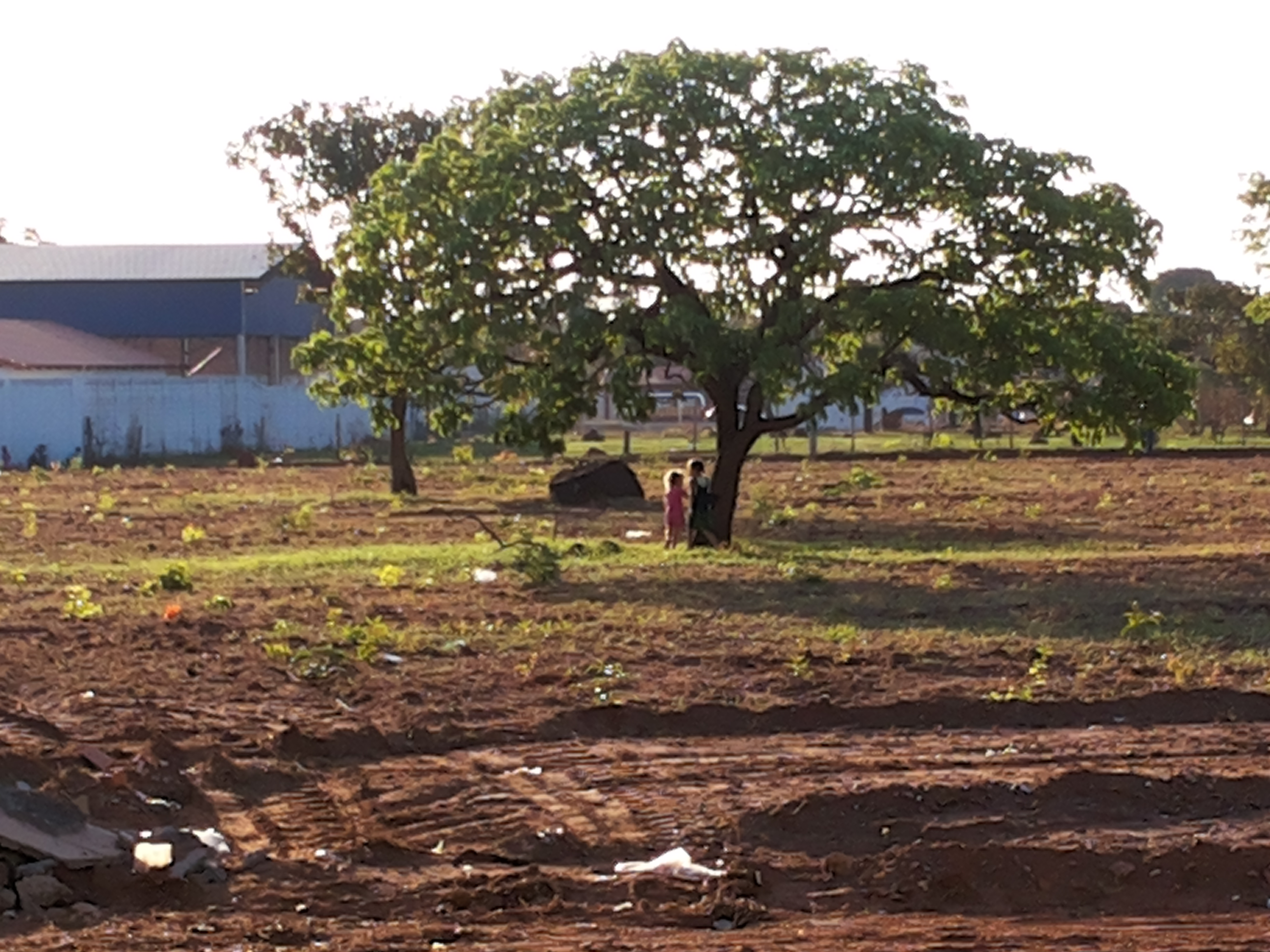 Futura praça morada nova miraporanga uberlândia